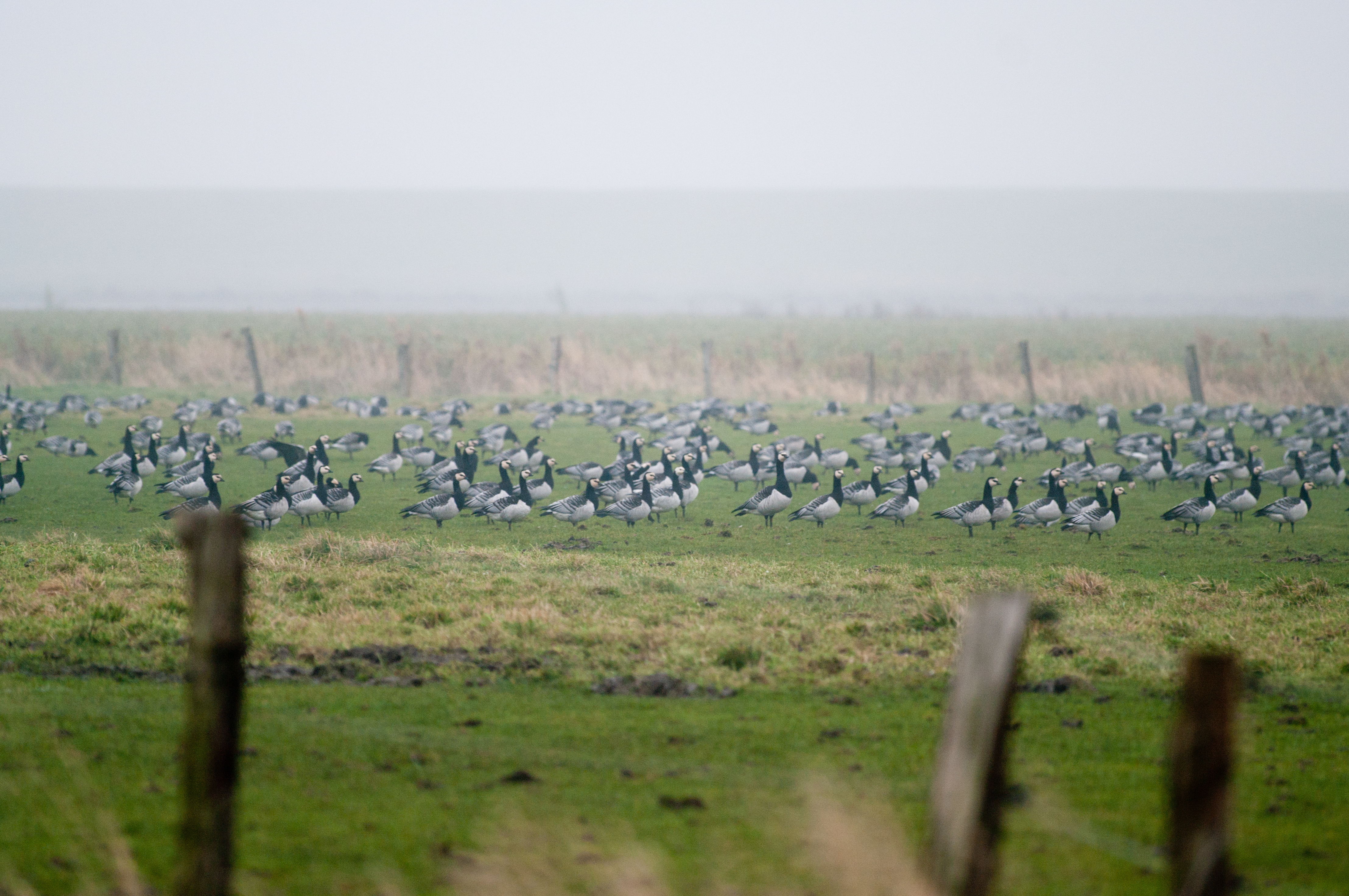 Flock of Branta leucopsis at the nature reserve Dithmarscher Eidervorland mit Watt in the eider river estuary in November.